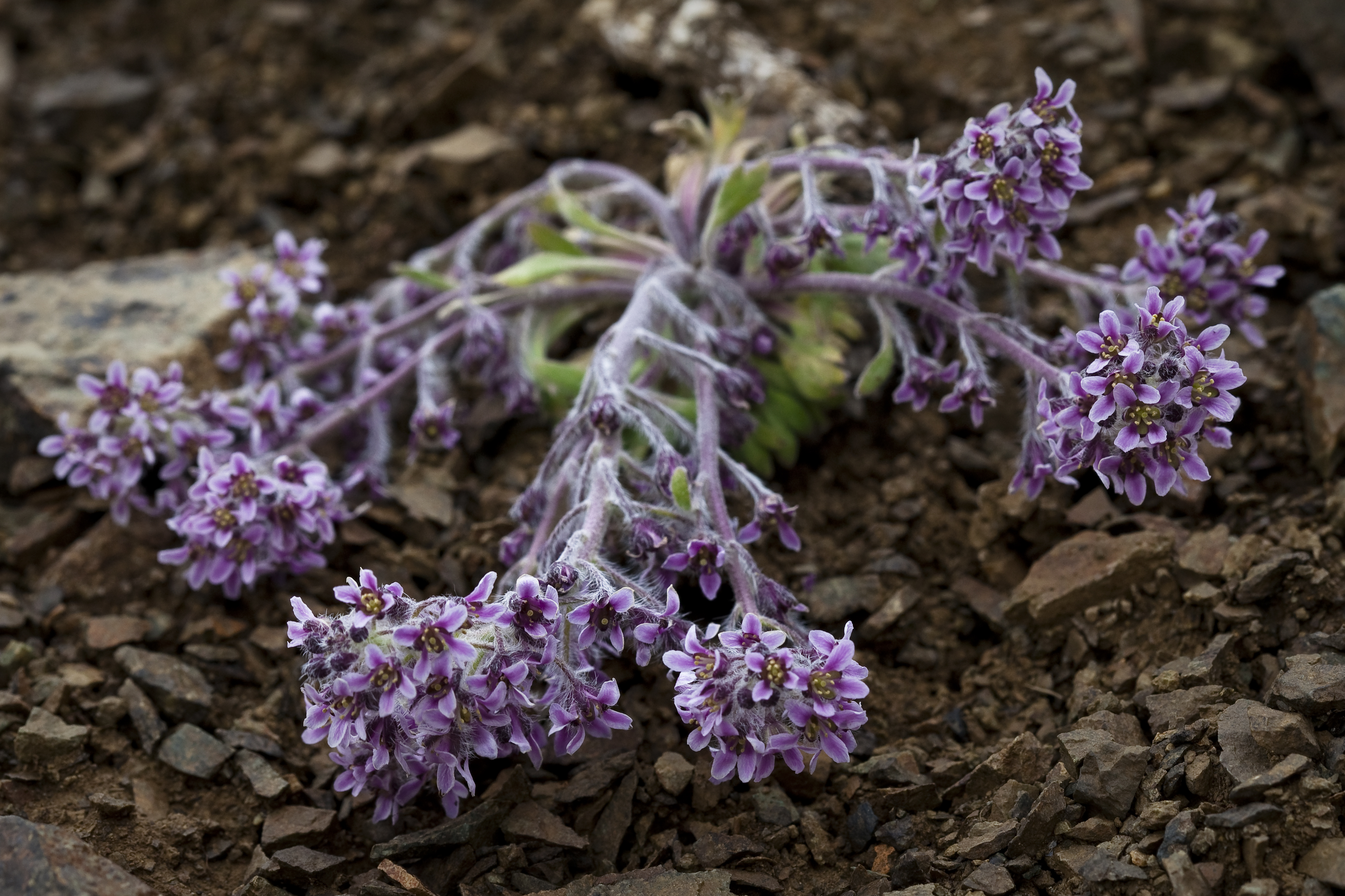 Smelowskia borealis, Denali National Park and Preserve, AK, USA